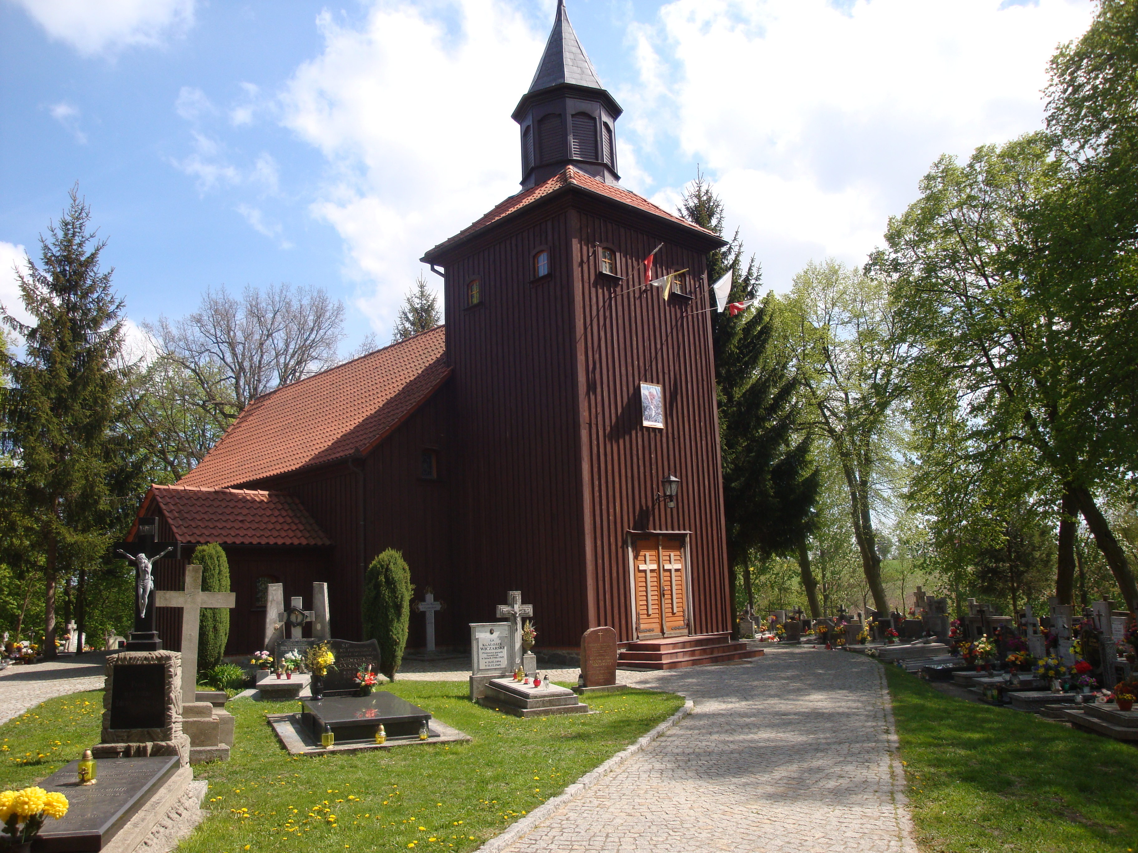 Church of Saint Bartholomew in Szembruk, Poland